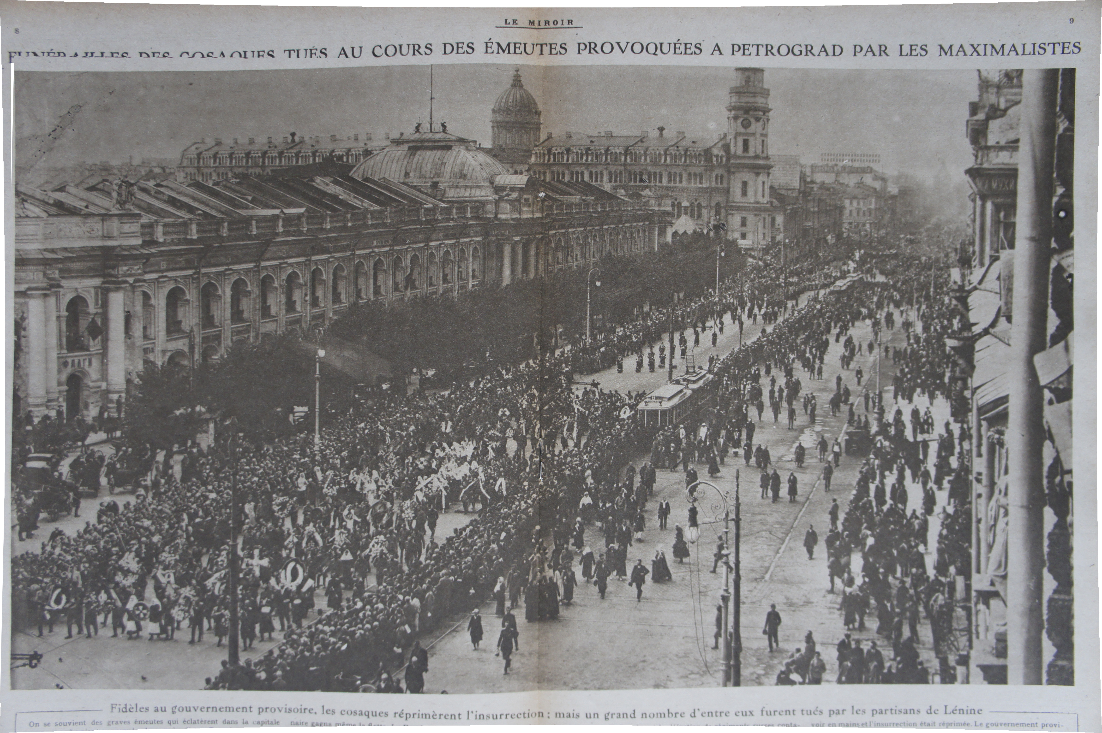 tiré du journal "le miroir".